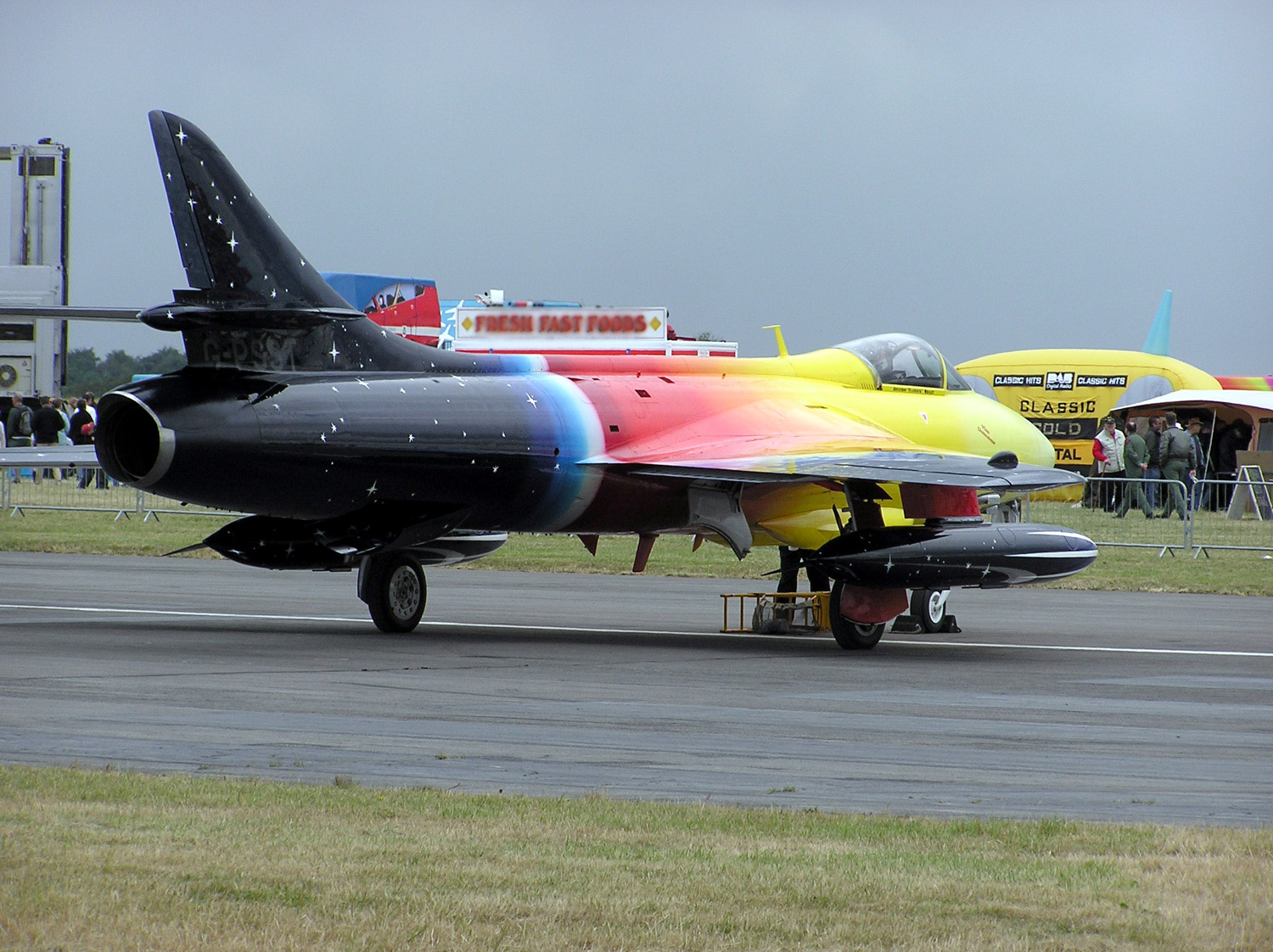 A privately-owned Hawker Hunter F.58 (G-PSST, “Miss Demeanour”) powered by one Rolls Royce Avon Mk 207, at Kemble airfield, Kemble, Gloucestershire, England. Built 1959. Photographed by Adrian Pingstone in June 2004 and released to the public domain.